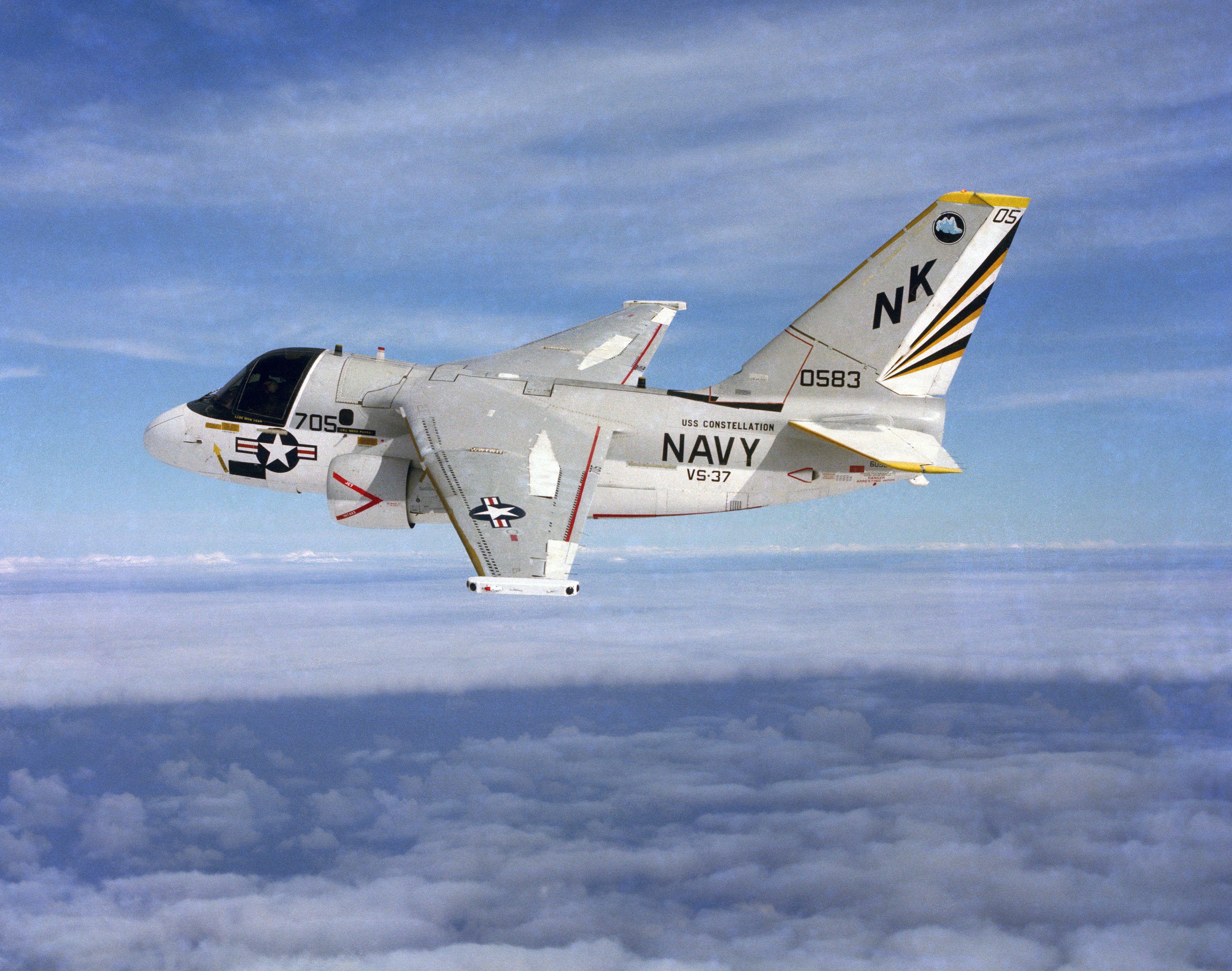 A U.S. Navy Lockheed S-3A Viking (BuNo 160583) from Anti-Submarine Squadron 37 (VS-37) "Sawbucks" in flight on 11 December 1986. VS-37 was assigned to Carrier Air Wing 14 (CVW-14) aboard the aircraft carrier USS Constellation (CV-64).